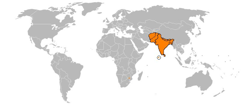 A map highlighting the participating nations at the 2010 South Asian Games.